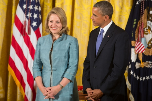 Soprano Renée Fleming receives the National Medals of Arts from President Barack Obama in July 2012.